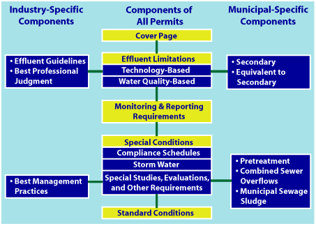 Chart, "Components of all Permits." Description of wastewater discharge permits issued by state environmental agencies and the U.S. Environmental Protection Agency, under the National Pollutant Discharge Elimination System (NPDES) in the United States.